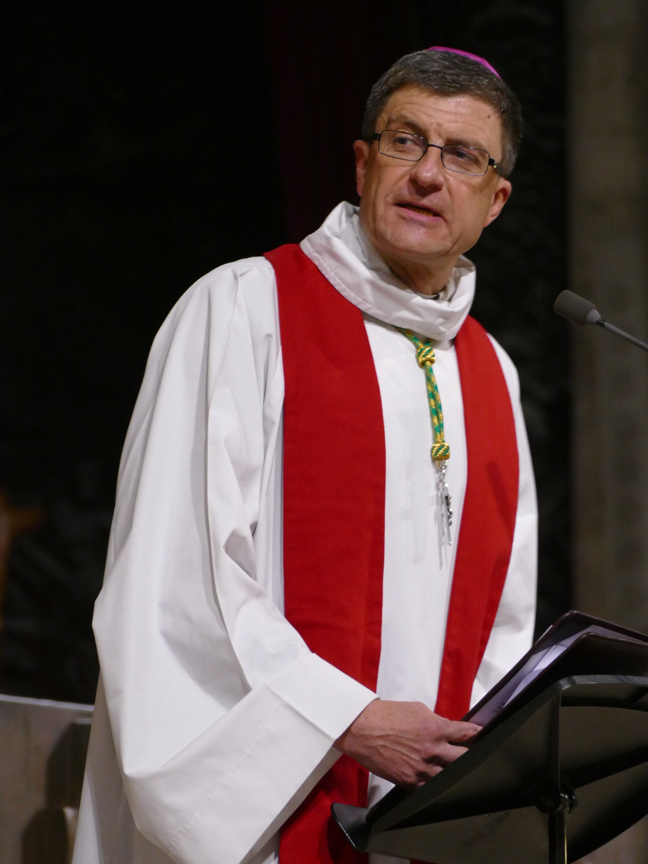 Mgr Éric de Moulins-Beaufort, auxiliary bishop of Paris, at Our Lady's cathedral for the vigil for life in Paris (Île-de-France, France).